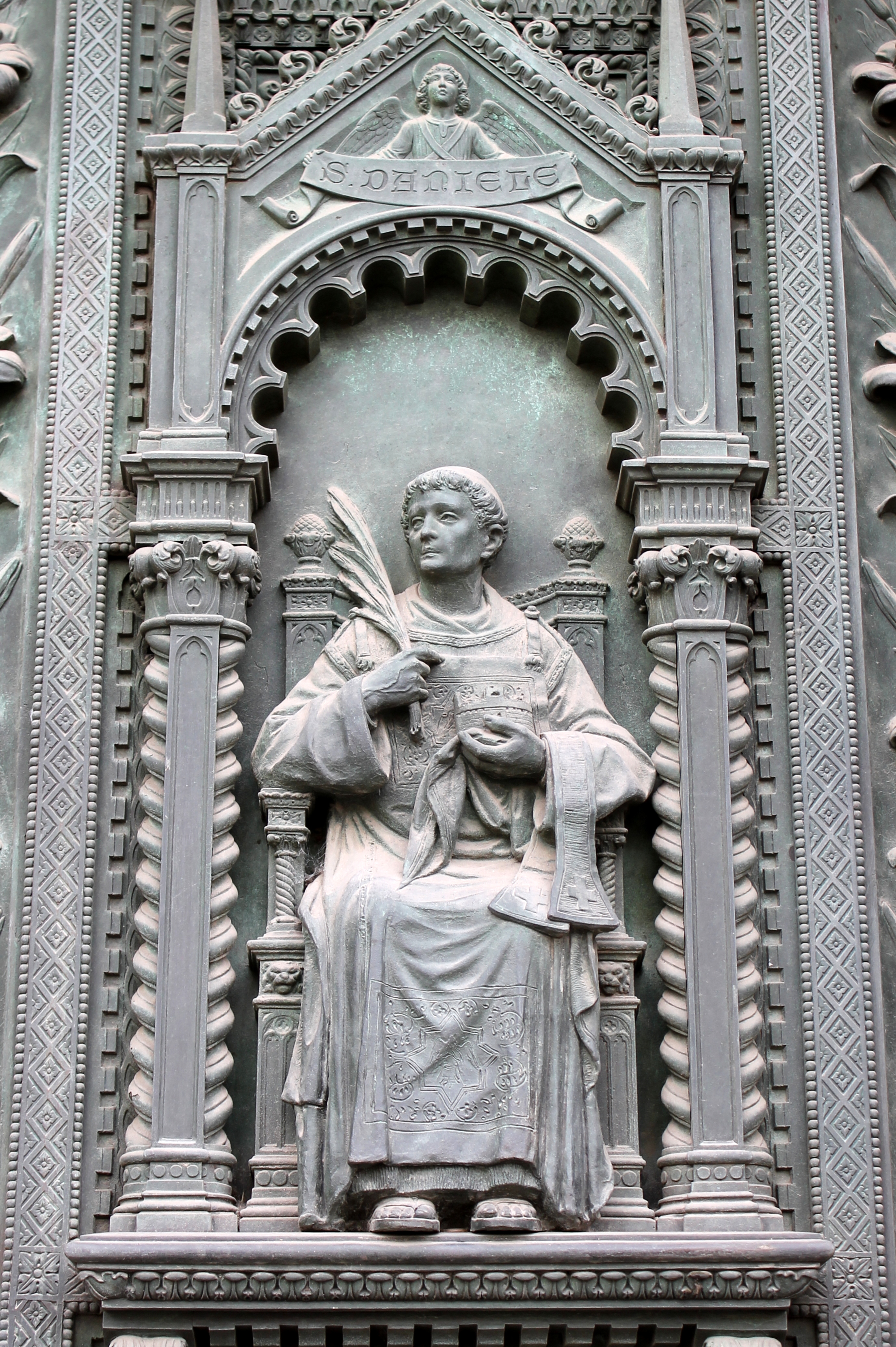 A bronze sculpture of San Daniele (Daniel) the Deacon on the doors of the Basilica of Saint Anthony in Padua.